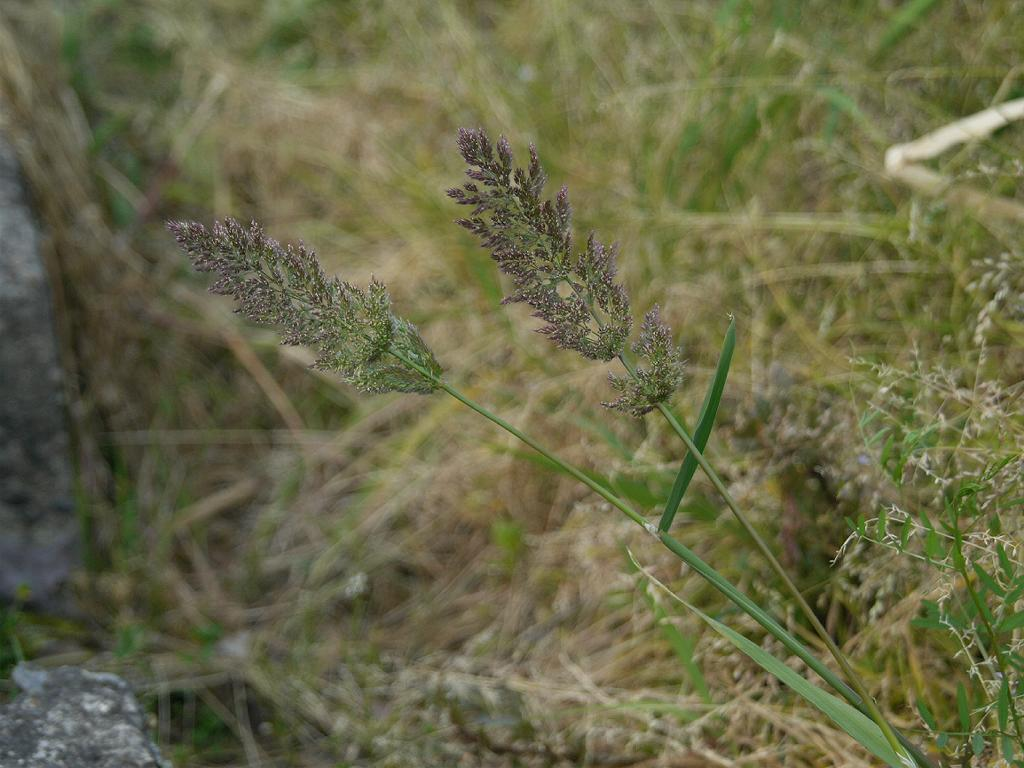 Polypogon fugax